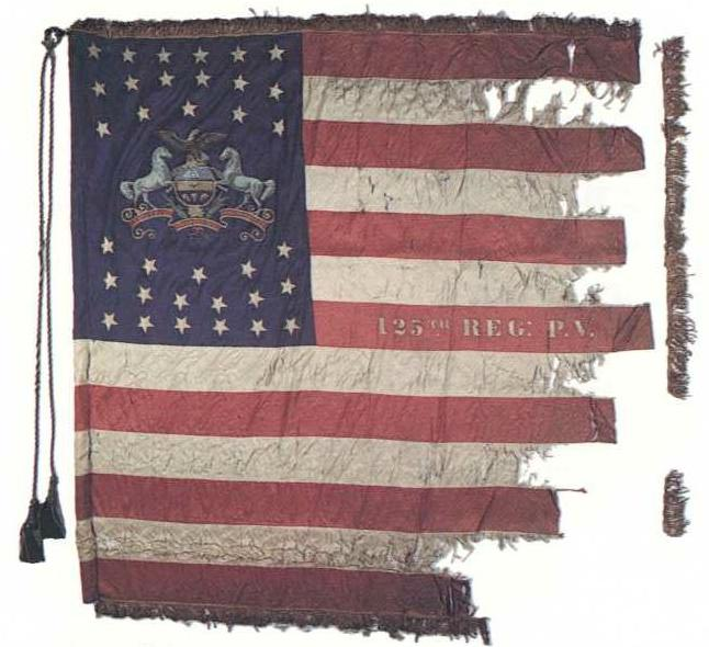 This is a photograph of two-dimensional artwork, a 149-year-old flag, itself public domain. Quoting, "Another class of uncreative works which are unable to claim copyright protection in the U.S. are those resulting from mechanical reproduction. Following Bridgeman Art Library v. Corel Corp., a simple reproductive photograph of a two-dimensional artwork does not give rise to a new copyright on the photograph."